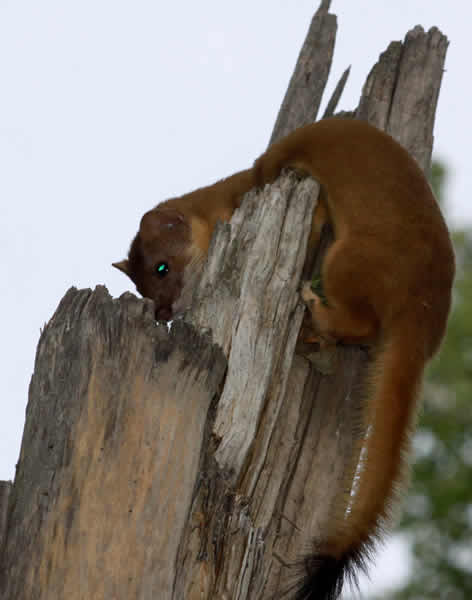 Long-tailed Weasel